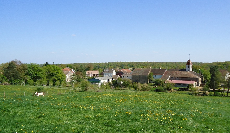 The Village